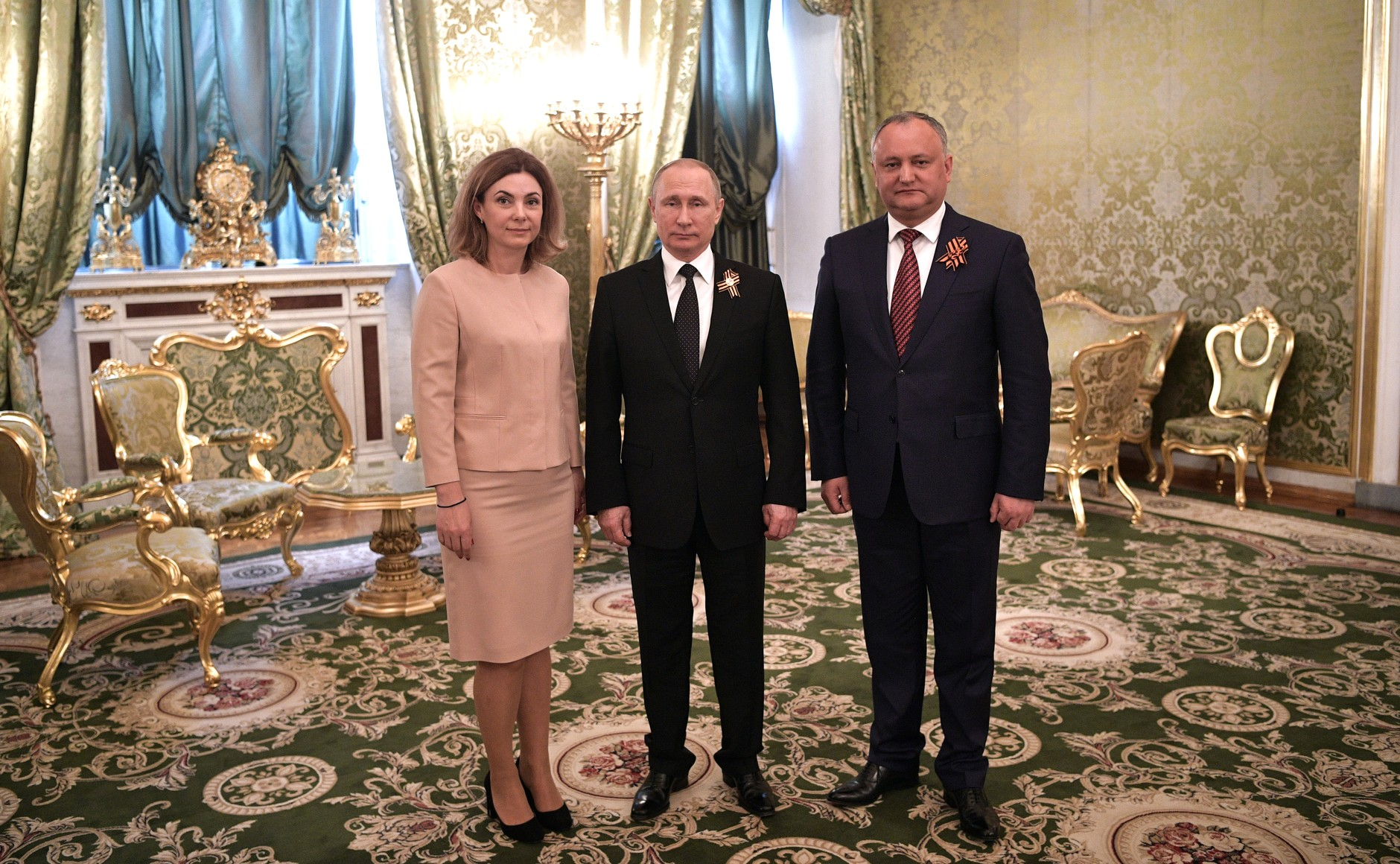 Victory Day reception in the Kremlin 2017-05-09